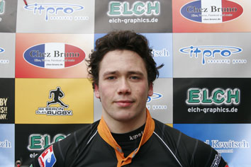 Profile photo of German rugby union player Lukas Hinds-Johnson